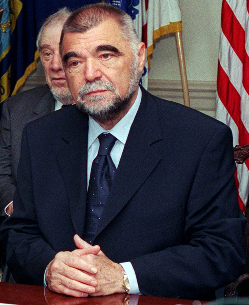 President Stjepan Mesic of the Republic of Croatia, in the Pentagon on Aug. 8, 2000